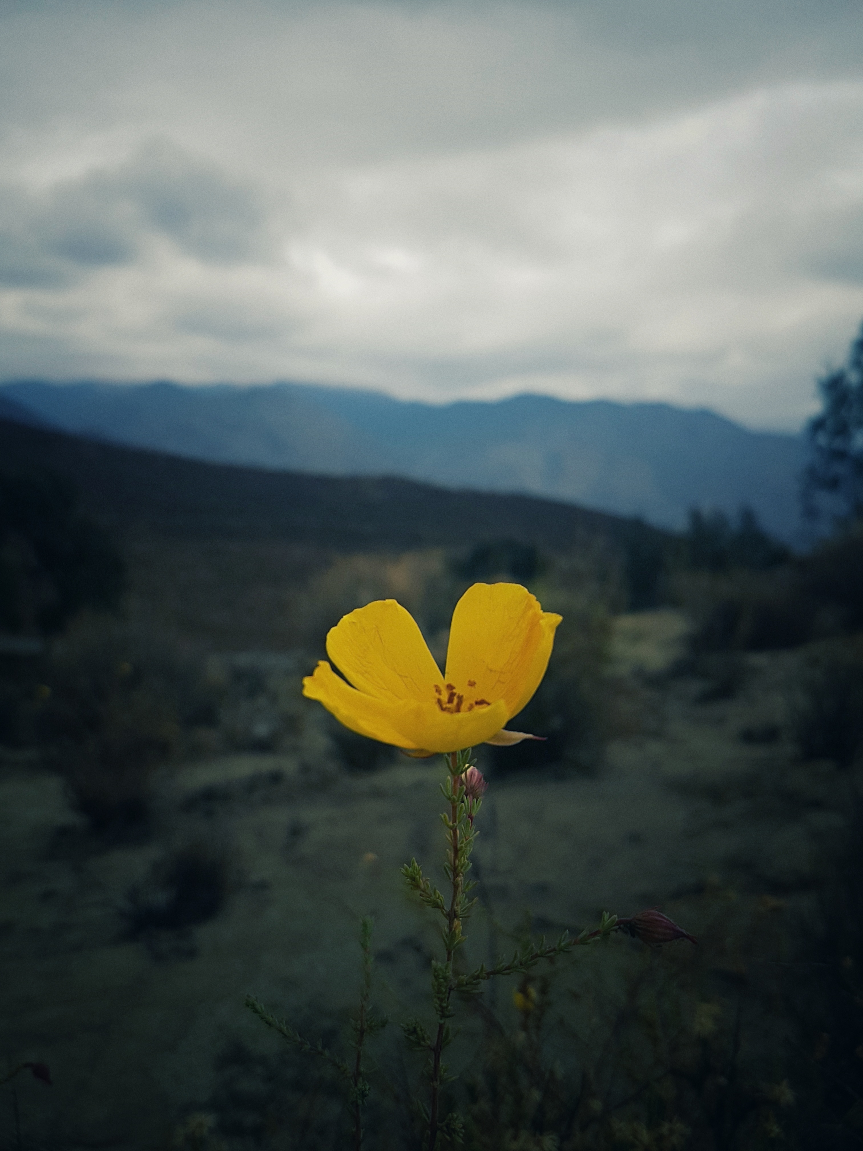 Wild flora near Candarave